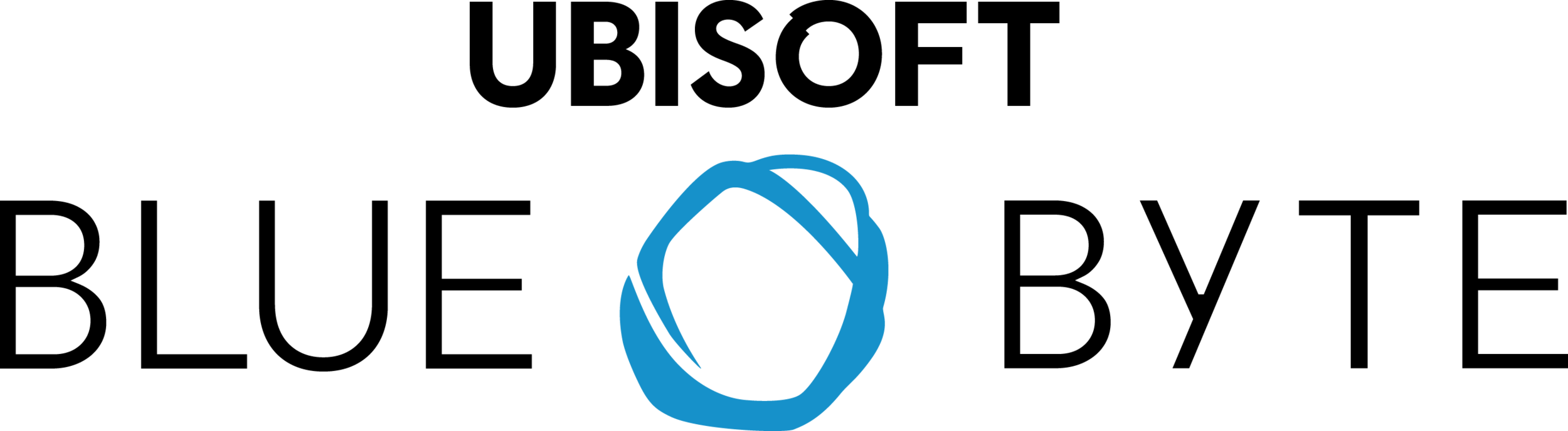 This is the updated Ubisoft Blue Byte logo that came into place when Ubisoft updated it's company image